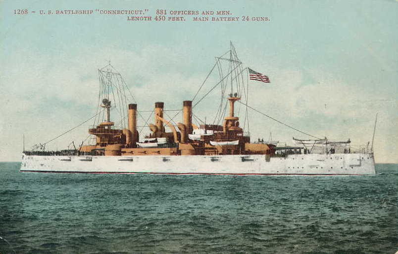 Postcard of USS Connecticut (BB-18). It (#1268) was the first of a 24-card series printed of the Great White Fleet by Edward Mitchell.[1] This card was drawn off a photo by Enrique Muller and colored by Mitchell.[2] It was likely published in 1906, the same time as #1280 in the series was published.[3]